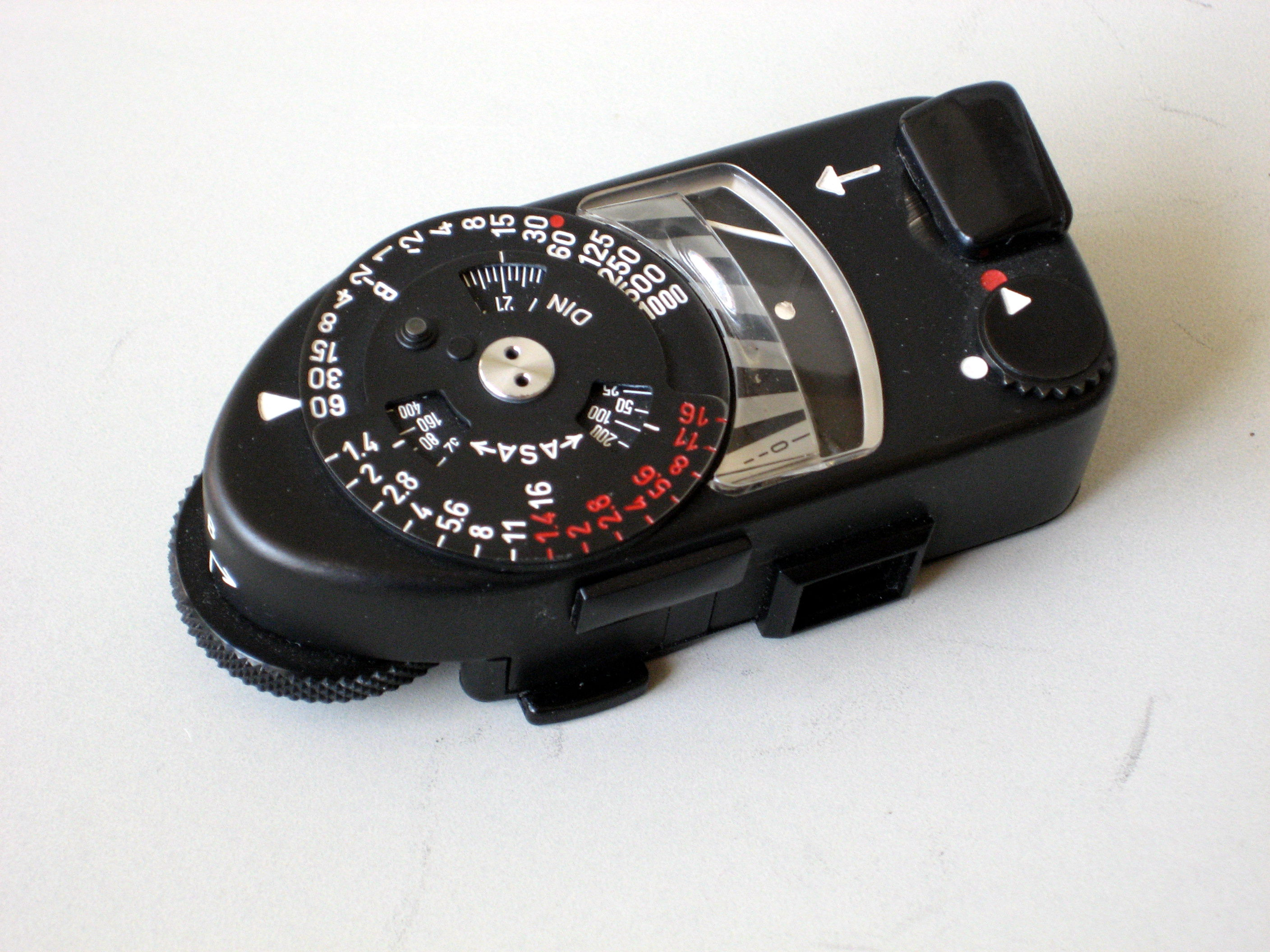 Metrawatt Leicameter MR